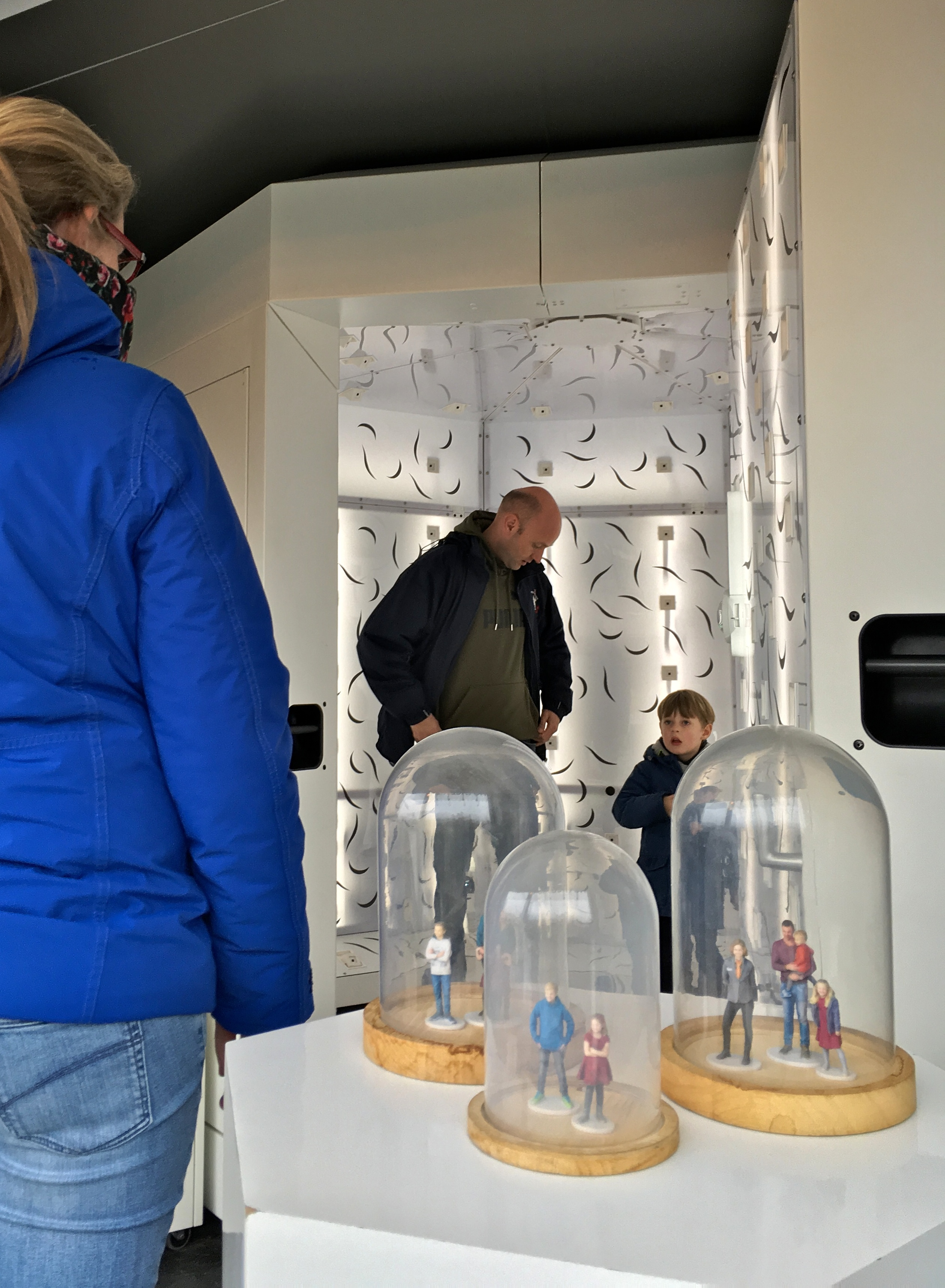 The Fantasitron photo booth for 3D selfies at the Madurodam miniature park. The photo booth accommodates up to two people at a time. The 3D selfie are then fabricated using powder bed and inkjet head 3D printing.